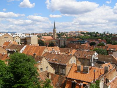 Panorama of the Old Town in Zagreb, Croatia